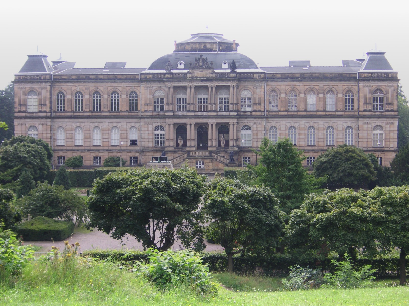 Ducal Museum Gotha (Thuringia).